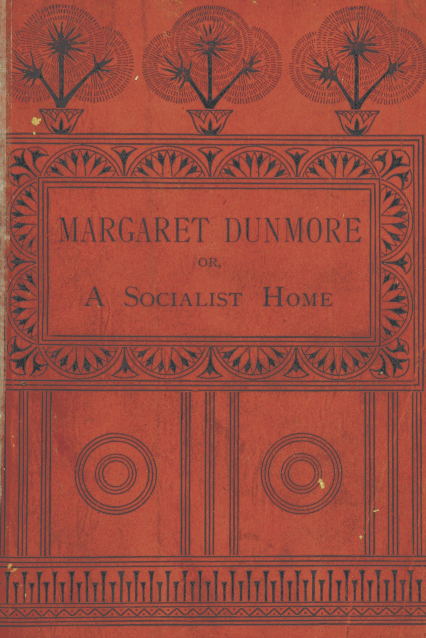 Image taken from: Title: "[Margaret Dunmore: or, a Socialist home. [A novel. " Author: CLAPPERTON, Jane Hume. Shelfmark: "British Library HMNTS 012629.ff.51." Page: 7 Place of Publishing: London Date of Publishing: 1894 Publisher: Swan Sonnenschein & Co. Edition: Second edition. Issuance: monographic Identifier: 000709693 Explore: Find this item in the British Library catalogue, 'Explore'. Download the PDF for this book (volume: 0) Image found on book scan 7 (NB not necessarily a page number) Download the OCR-derived text for this volume: (plain text) or (json) Click here to see all the illustrations in this book and click here to browse other illustrations published in books in the same year. Order a higher quality version from here. This file is from the Mechanical Curator collection, a set of over 1 million images scanned from out-of-copyright books and released to Flickr Commons by the British Library. Please add the Flickr page URL for the image Please add the British Library system number for the book This tag does not indicate the copyright status of the attached work. A normal copyright tag is still required. See Commons:Licensing.